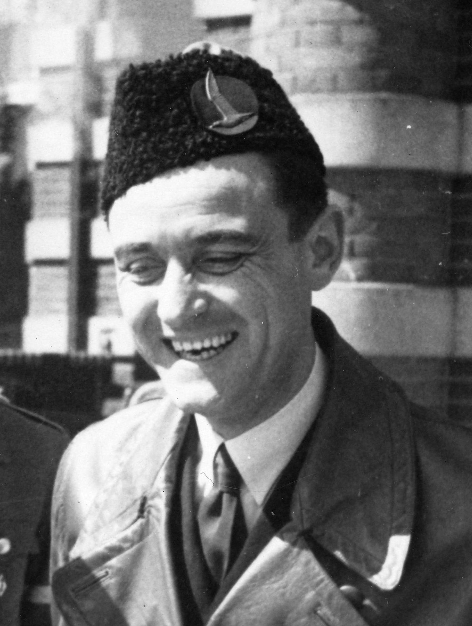 Nazi-collaborator Cornelis (Kees) van Geelkerken (1901-1976), leader of the Dutch Youth Storm, 1942.